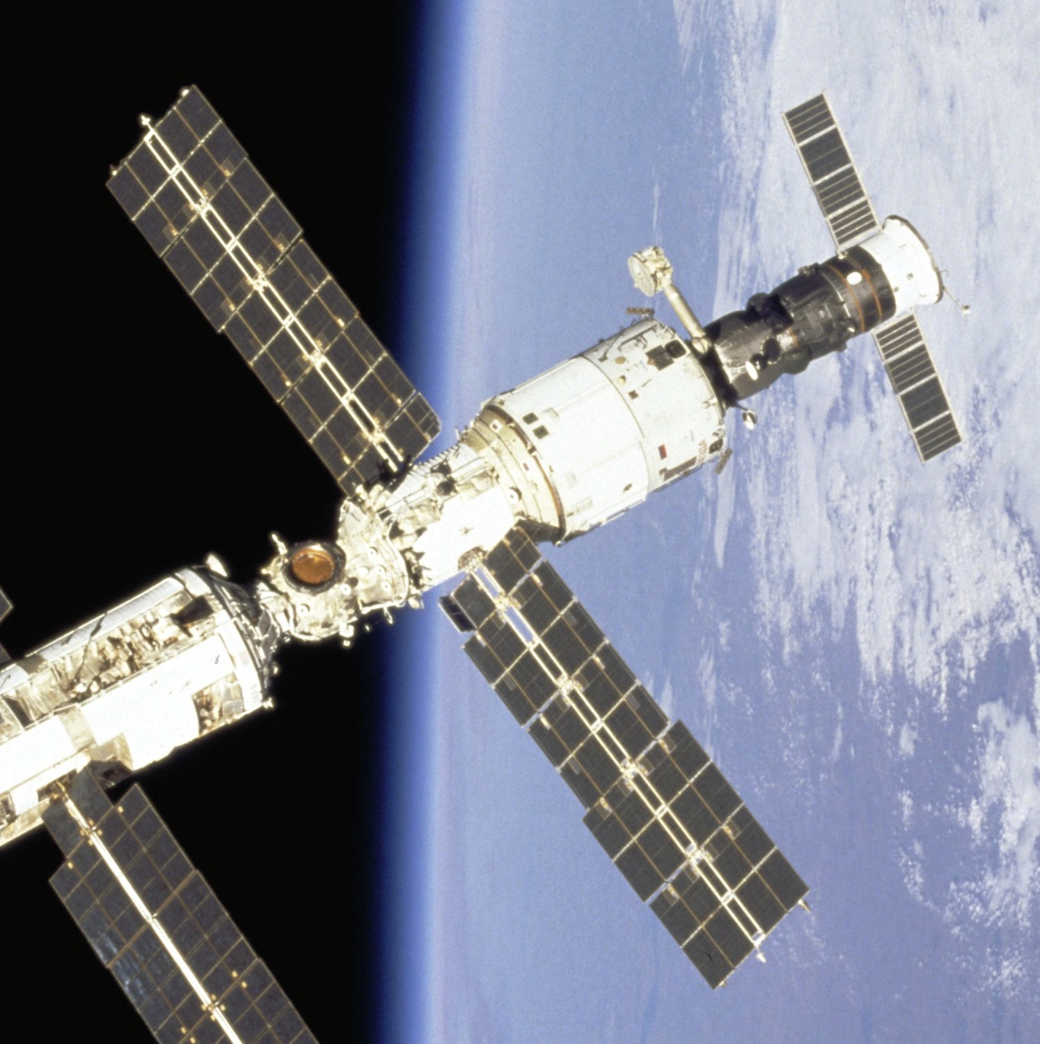 The Zvezda service module of the International Space Station with a docked Progress spacecraft to the right of the image and the Zarya FGB to the left.